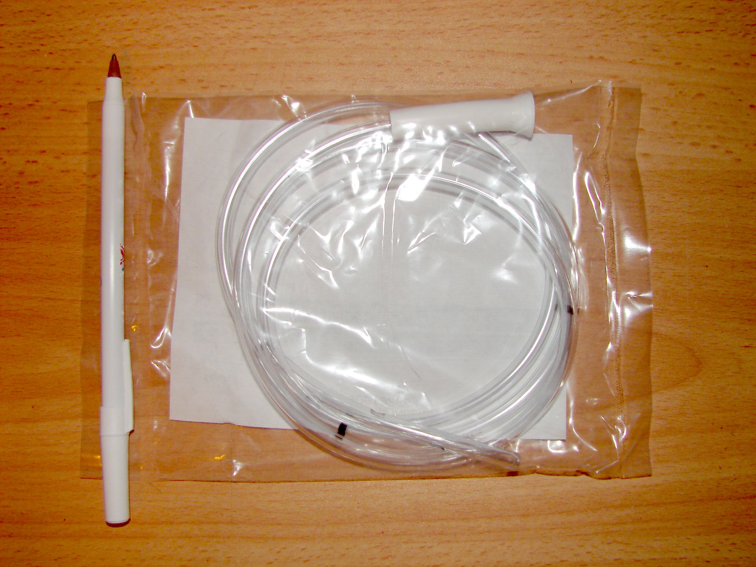 Kendall Curity Stomach tube (Levin type), 18 Fr × 48 in (121 cm), next to a ballpoint pen to compare sizes